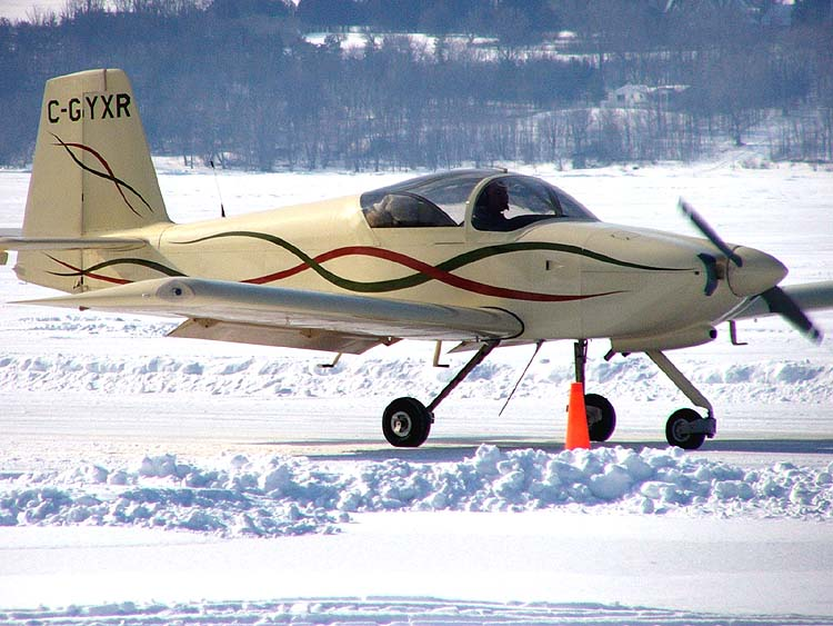 An RV-9A (C-GYXR) – the nose wheel equipped version of the RV-9 at an ice strip fly-in near Ottawa, Ontario 2005. I took this photo